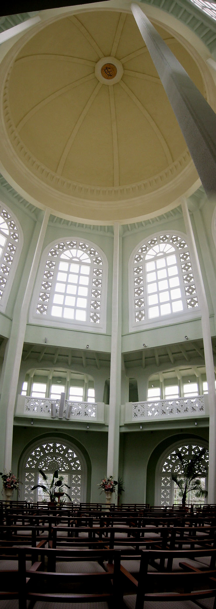 Bahai Temple - Sydney